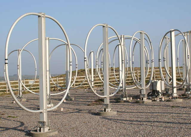 Aerial installation on Penhale Point Part of the military installations at Penhale Army Camp.